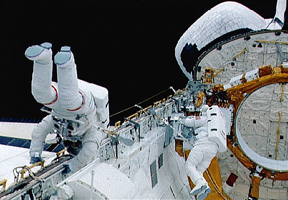 Astronauts Gregory J. Harbaugh, wearing extravehicular mobility unit (EMU) (red stripes), and Mario Runco, Jr. during the EVA on the STS-54 mission in January 1993. NASA photo in public domain.